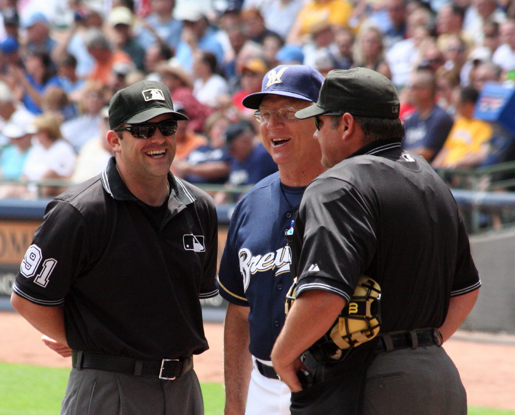 First base umpire Brian Knight (left), Milwaukee Brewers manager Ken Macha (center), and home plate umpire Hunter Wendelstedt (right) share a laugh prior to a game at Miller Park in Milwaukee, Wisconsin.